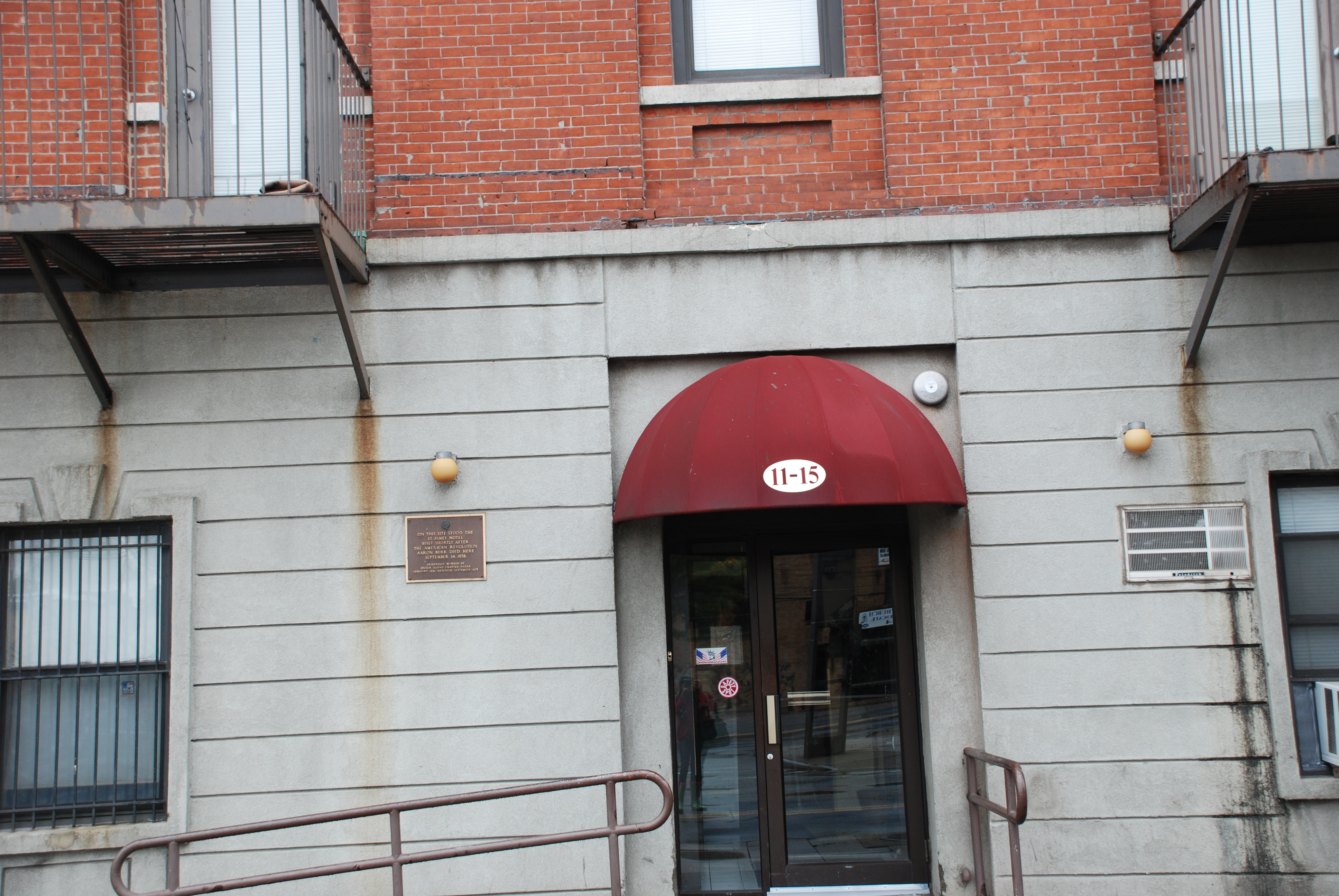 Looking southeast at facade of later building that replaced the hotel where Aaron Burr died.